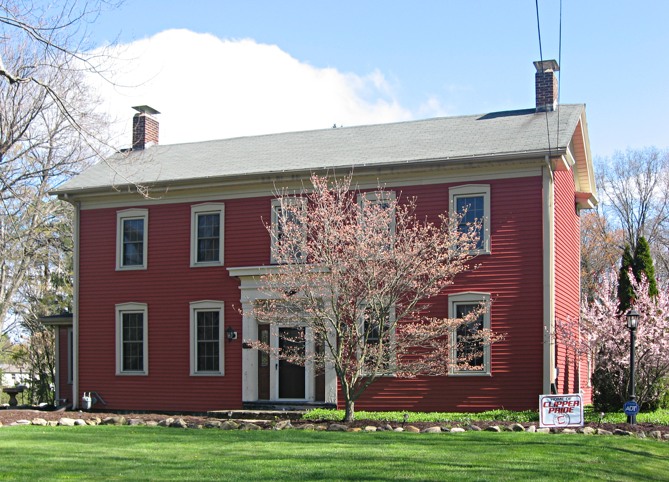 Front of the Jones-Bowman House, located at 540 Pittsburgh Street in Columbiana, Ohio, United States. Built in 1842, it is listed on the National Register of Historic Places.